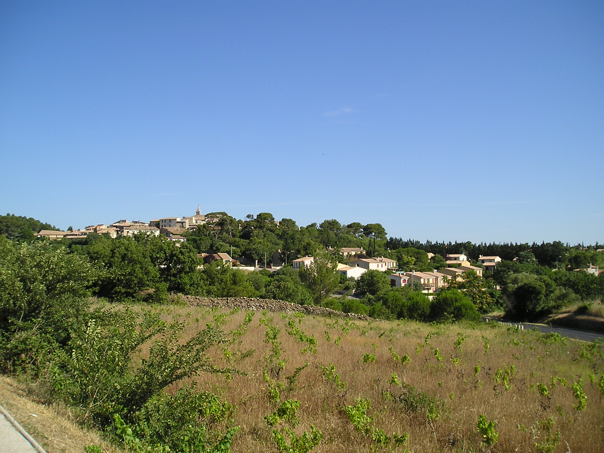 In Hérault, the village of Murviel-lès-Montpellier viewed from the South and the D27 road. On the left, the arrow of John the Baptist church.